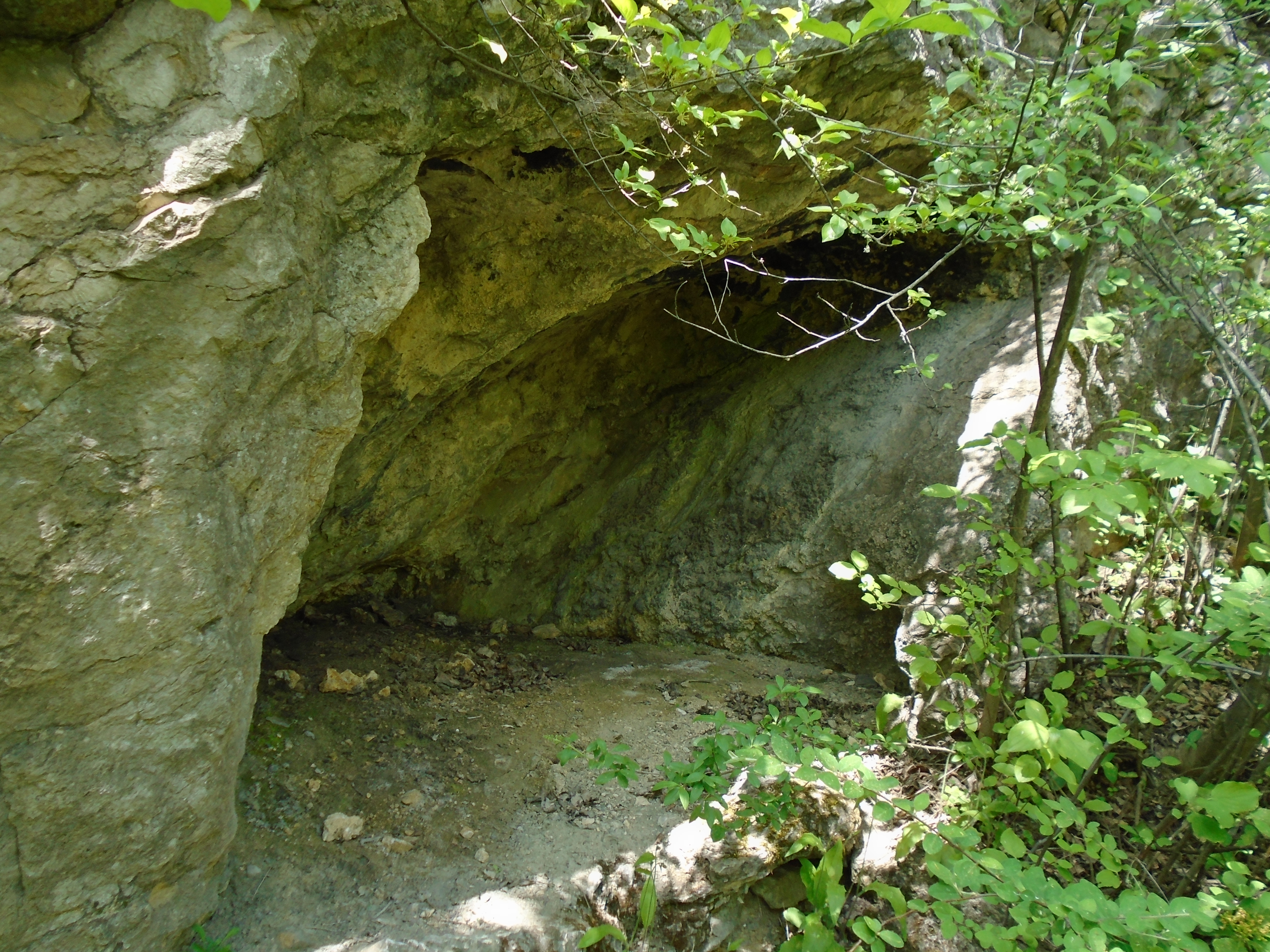 The Keleti quarry No 18 Cave.